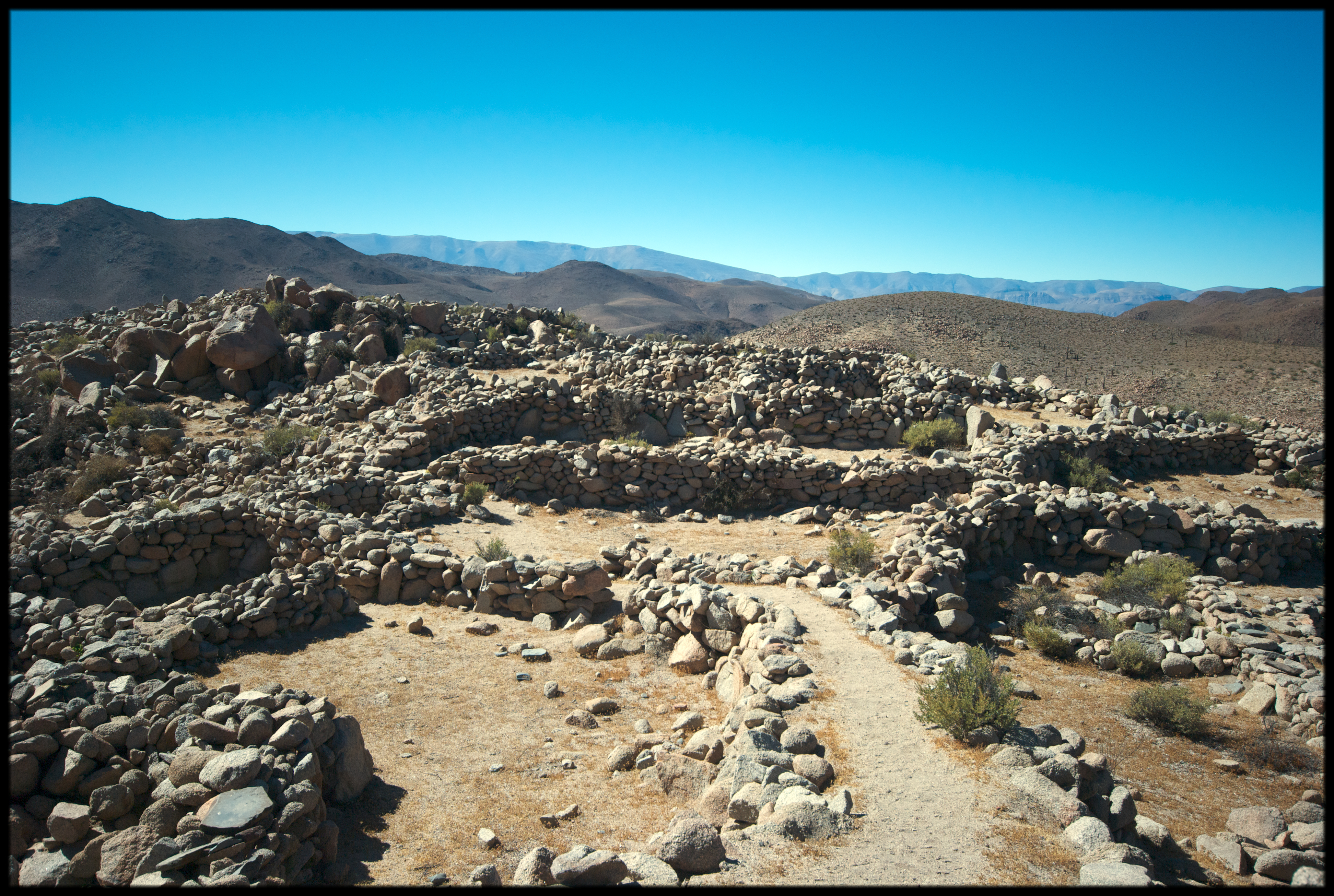 The Tastil ruins are pre-incan and was believed to be populated between 1360 and 1440 and about 2000 people lived there.